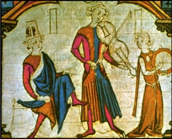 Medieval musicians